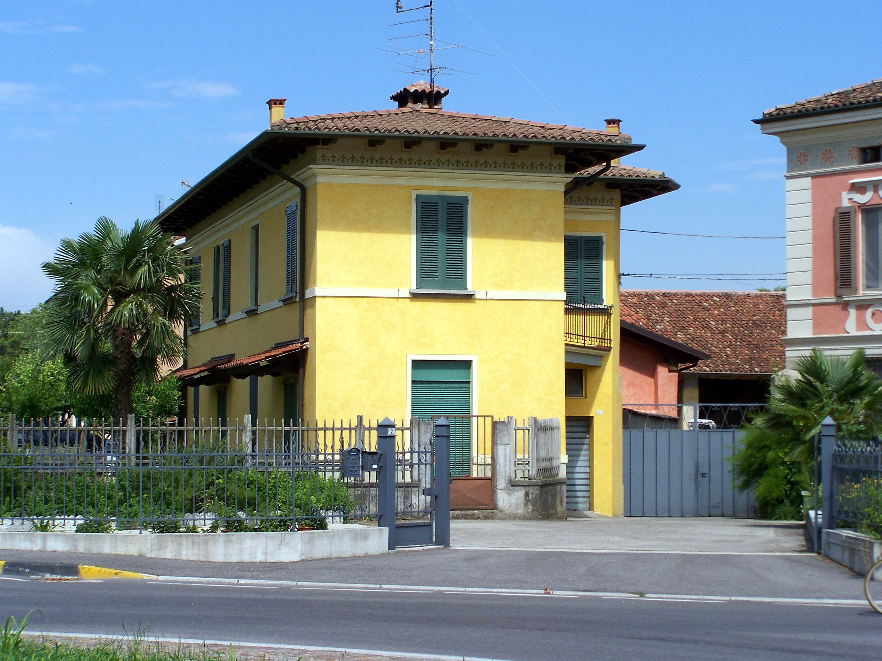 The dismantled tramway station of Gottolengo in 2009.